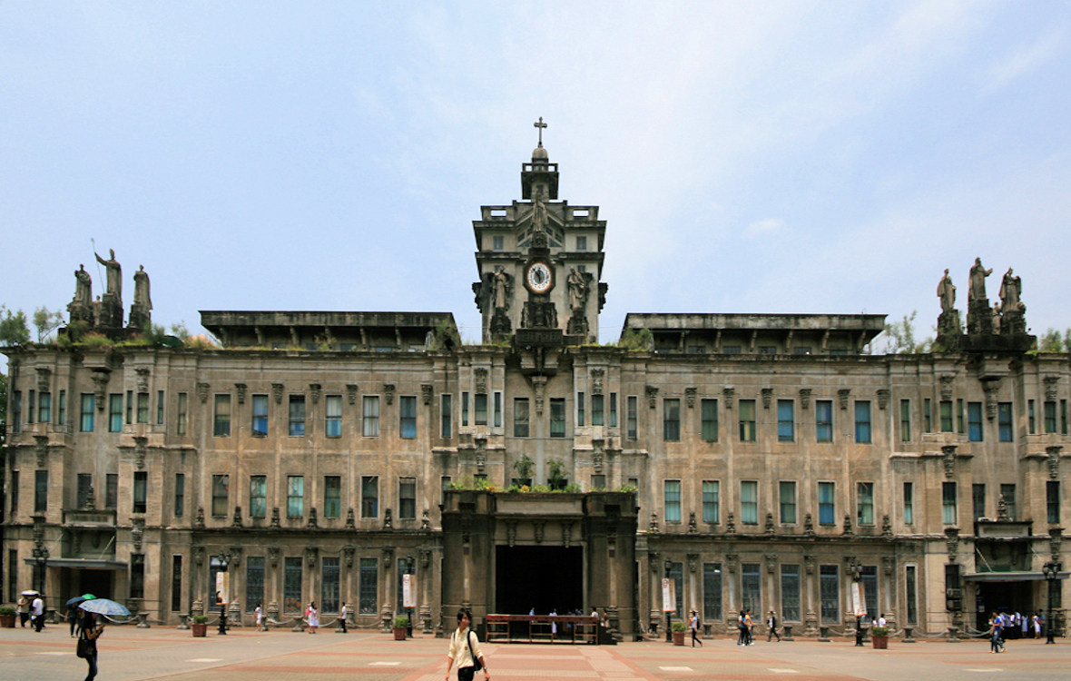 University of Santo Tomas Main Building España, Manila